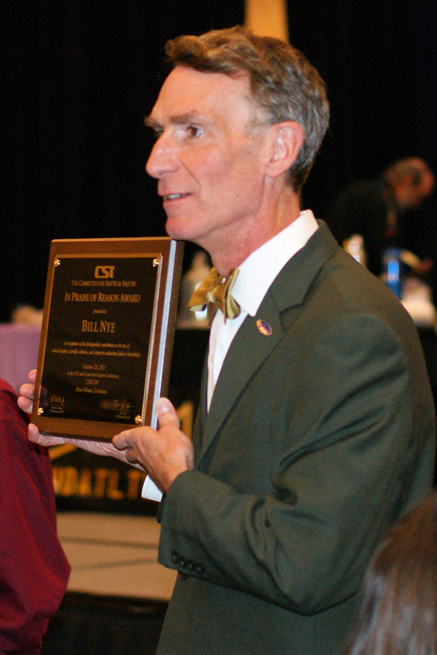 Bill Nye "The Science Guy" and Executive Director of The Planetary Society received the Committee for Skeptical Inquiry's "In Praise of Reason" Award at CSICON 2011 in New Orleans, LA, USA.